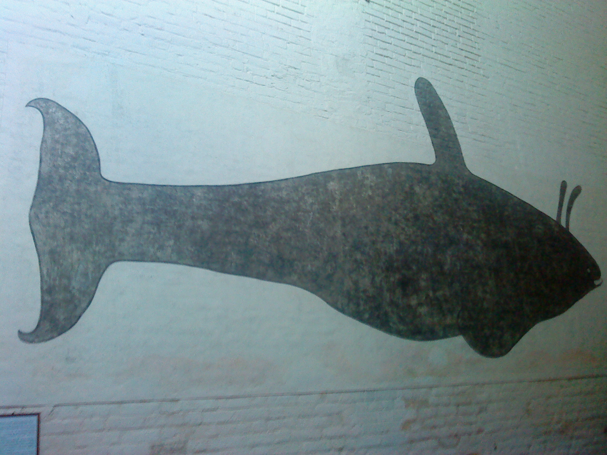 Whale (orca) depicted on the wall of St Mary's in Greifswald, 1545